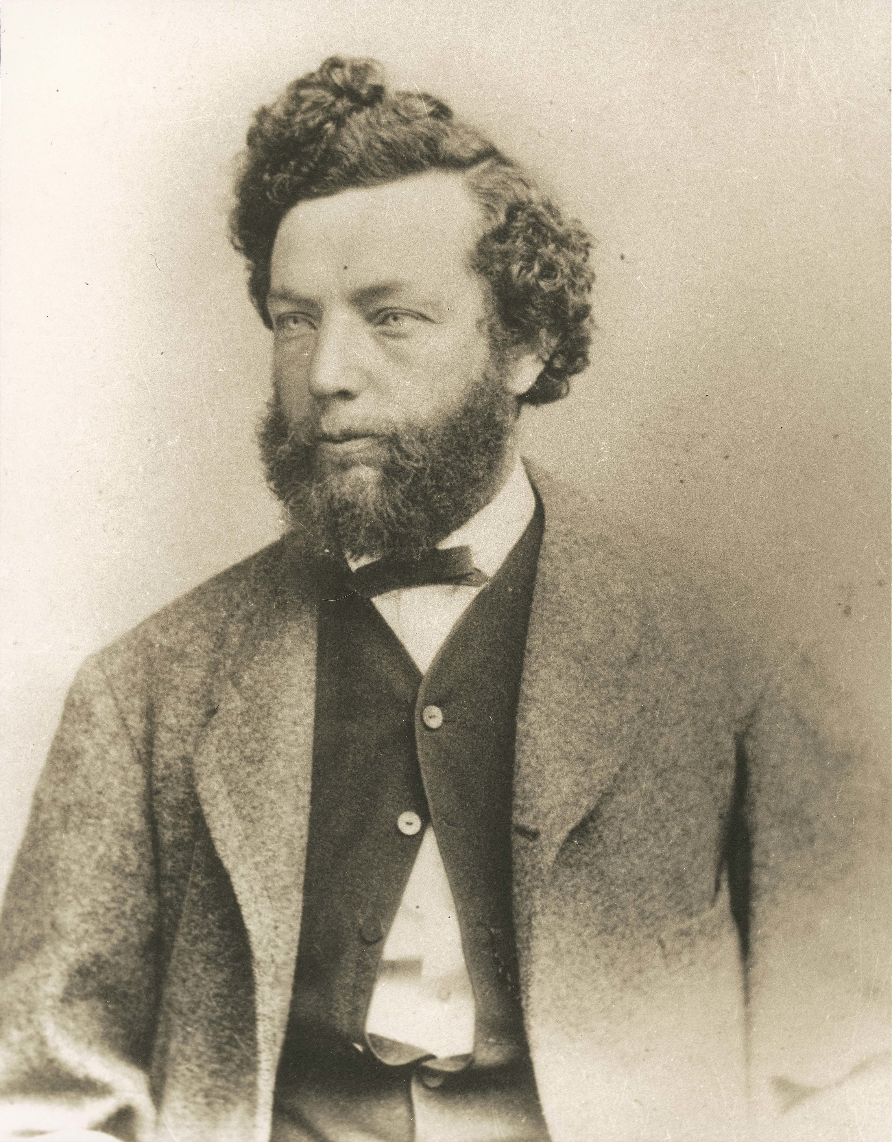 A bust portrait of C.R. Savage at middle age with dark, curly hair and a beard. The photo is sepia-toned.